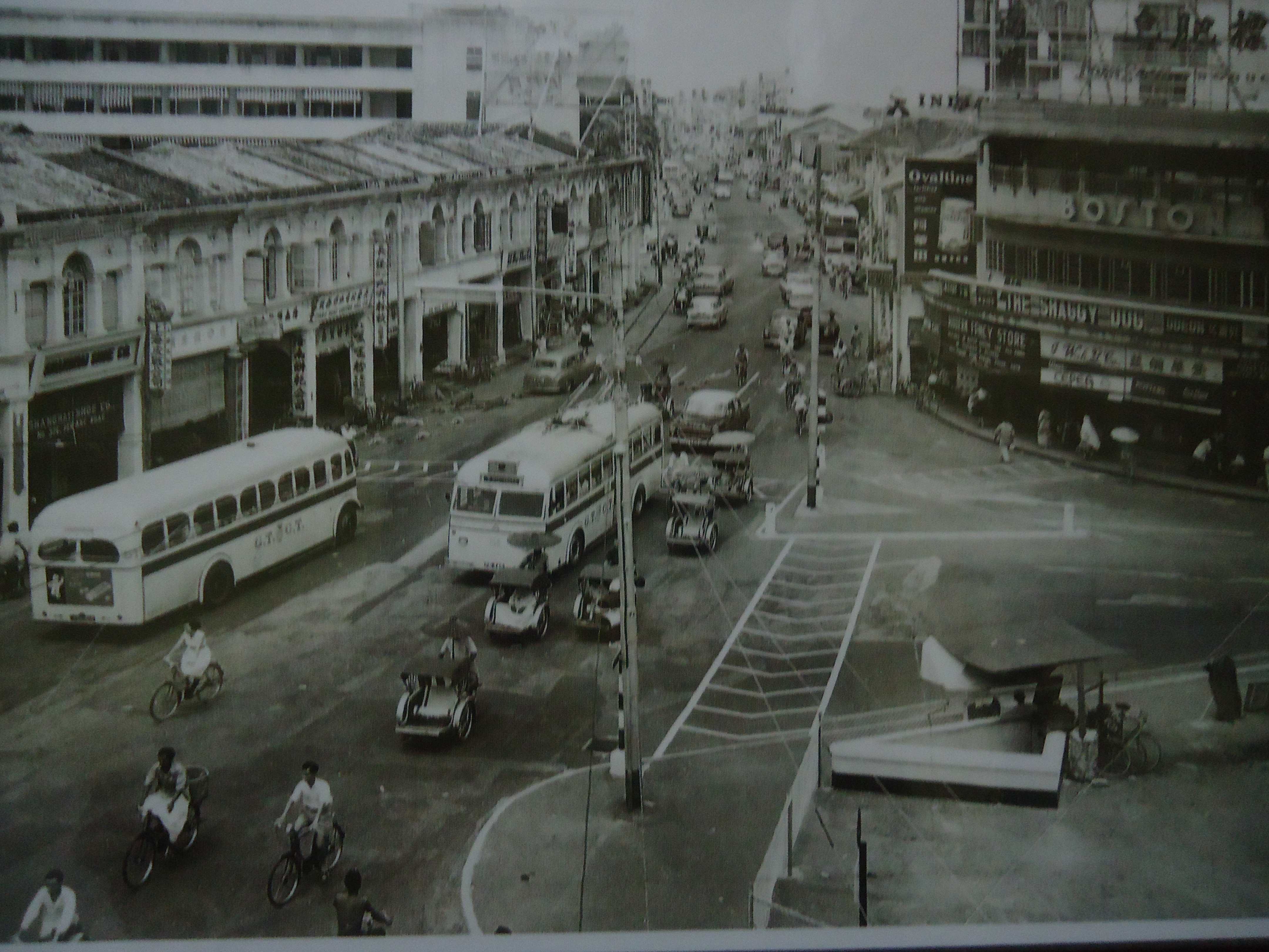 In keeping with the heritage theme, lighting in the rooms is not too great, and with all that woodwork and congested city area, the windows cannot be opened. I was fascinated by this old monochrome photograph of old Penang, complete with trolley buses and beca pedicabs with very few people and motorized vehicles. I had to unfortunately shoot this picture in less than ideal lighting conditions thanks to the light conditions I mentioned just moments ago. The following day, I went very close to this very spot.